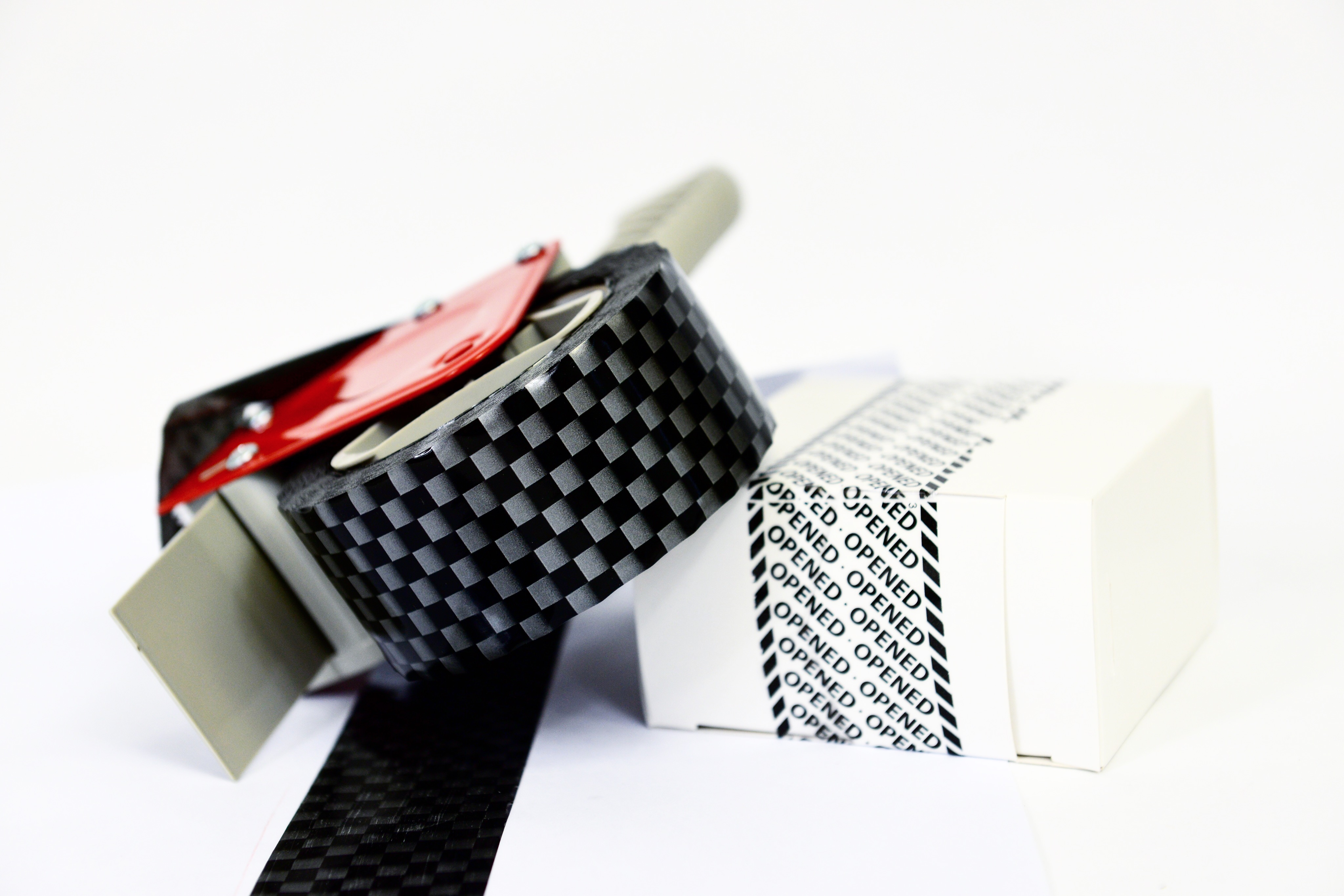 Permanent, linerless self-adhesive security tape This permanent tamper evident box tape leaves an easy to see VOID/OPEN security message in the tape itself, so it cannot be reapplied or realigned. The tape leaves a dry, permanent adhesive layer on the surface. Protecting products and packaging from tampering, unauthorised opening and counterfeiting by delivering an instant, clearly visible, additional layer of security. The security box tape offers a new layer, of advanced tamper evidence to your packaging solutions. The box tape can be applied like traditional packaging tapes, either manually with a tape gun or automatically through carton closing machines. The dry adhesive prevents build-up on the blades and ensures instant activation.